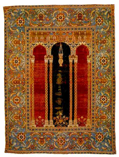 The James F. Ballard Late 16th Century Bursa Prayer Rug